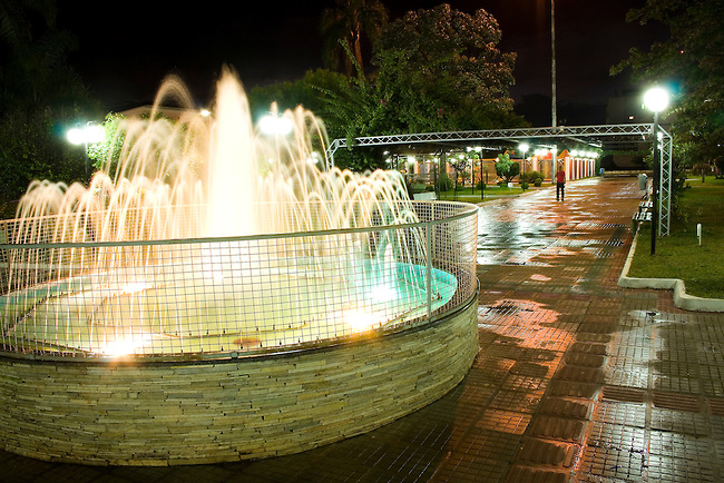 chafariz